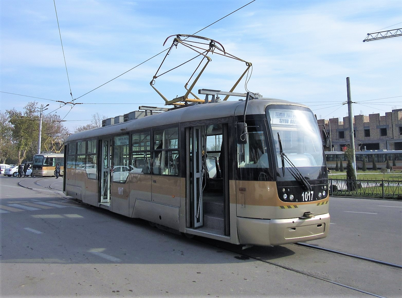 Vario LF in Samarkand 2018